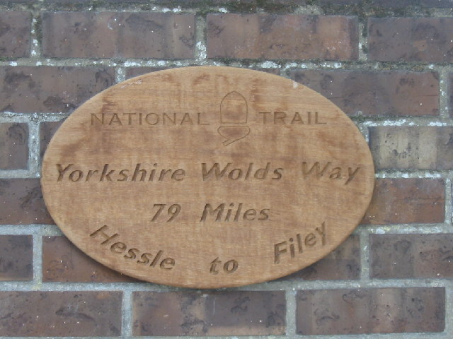 The Yorkshire Wolds Way sign at Market Weighton, East Riding of Yorkshire, England.The Yorkshire Wolds Way which was opened on 2nd October 1982 is a 79 mile, long distance path starting at Hessle Haven on the Humber, and finishing at the cliffs above Filey on the East Riding coast. This sign is at the public car park in Market Weighton, a favourite starting point for walkers.